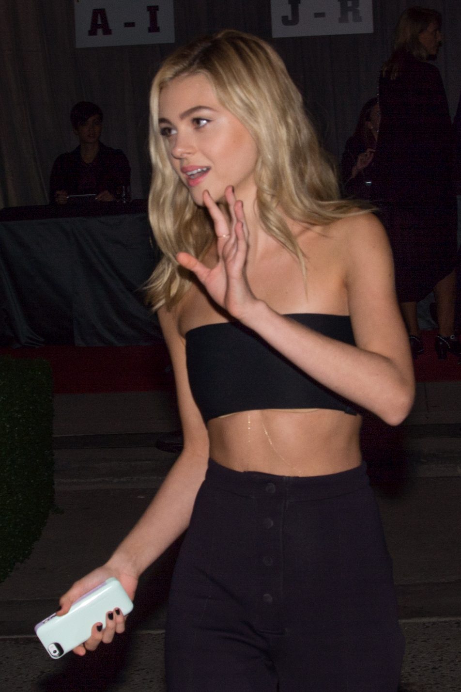 Nicola Peltz at the Toronto International Film Festival on September 7, 2014.